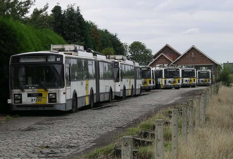 Disposed Ghent trolleybus